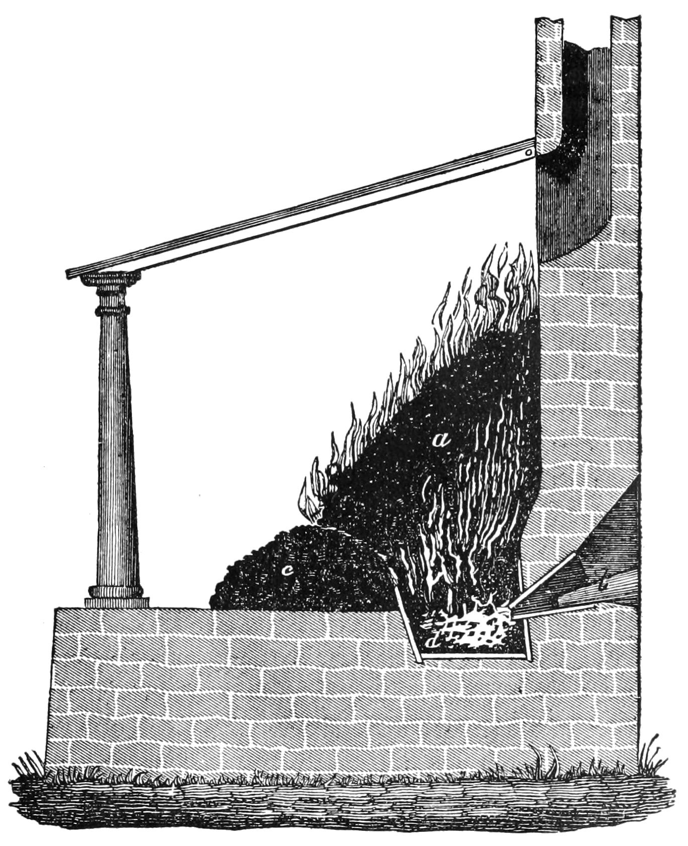 A Blomary Fire. The cavity of the hearth d … was lined with fire-resisting stone. … The tuyère, b, was placed from seven to eight inches above the bottom of the hearth, and was contrived so that its inclination could be varied at pleasure. The blast was produced either by the "trompe" or by wooden or leather bellows. … The bottom and sides of the "hearth" having been lined with a thick coating of charcoal dust, it was then filled with charcoal, upon which crushed ore was thrown, and kept in place by a dam of charcoal dust (c). … [O]re and charcoal were added from time to time as the work progressed, and sometimes the mass of fuel and ore was heaped up three or four feet.